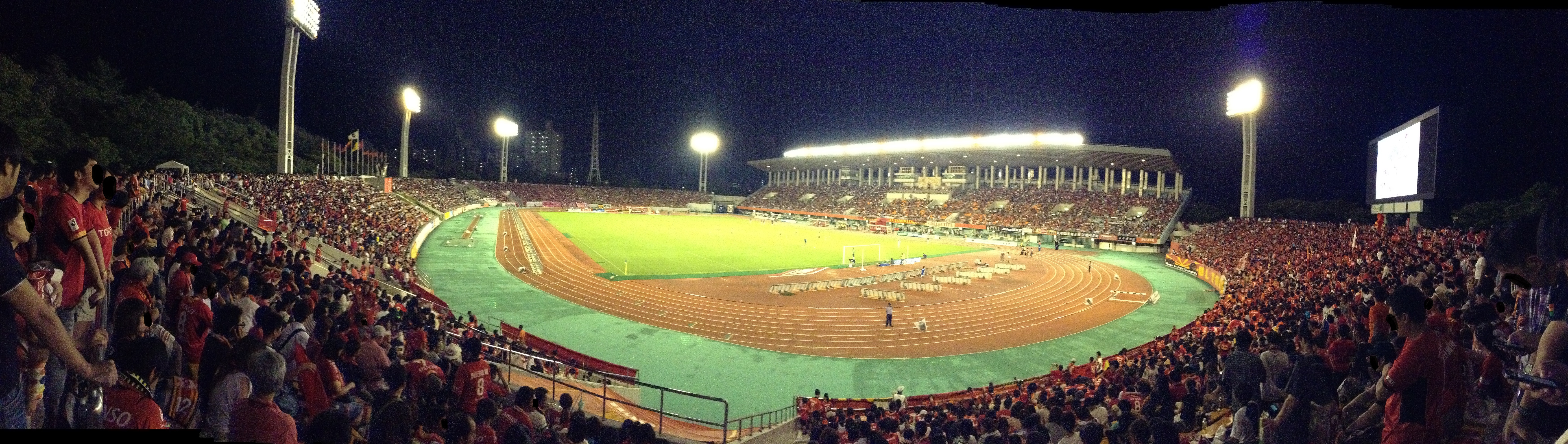 The panoramic photograph of Mizuho Park Athletic Stadium. J. League Division 1 ,Nagoya Grampus Eight vs Cerezo Osaka, 24 August, 2013（After correction）